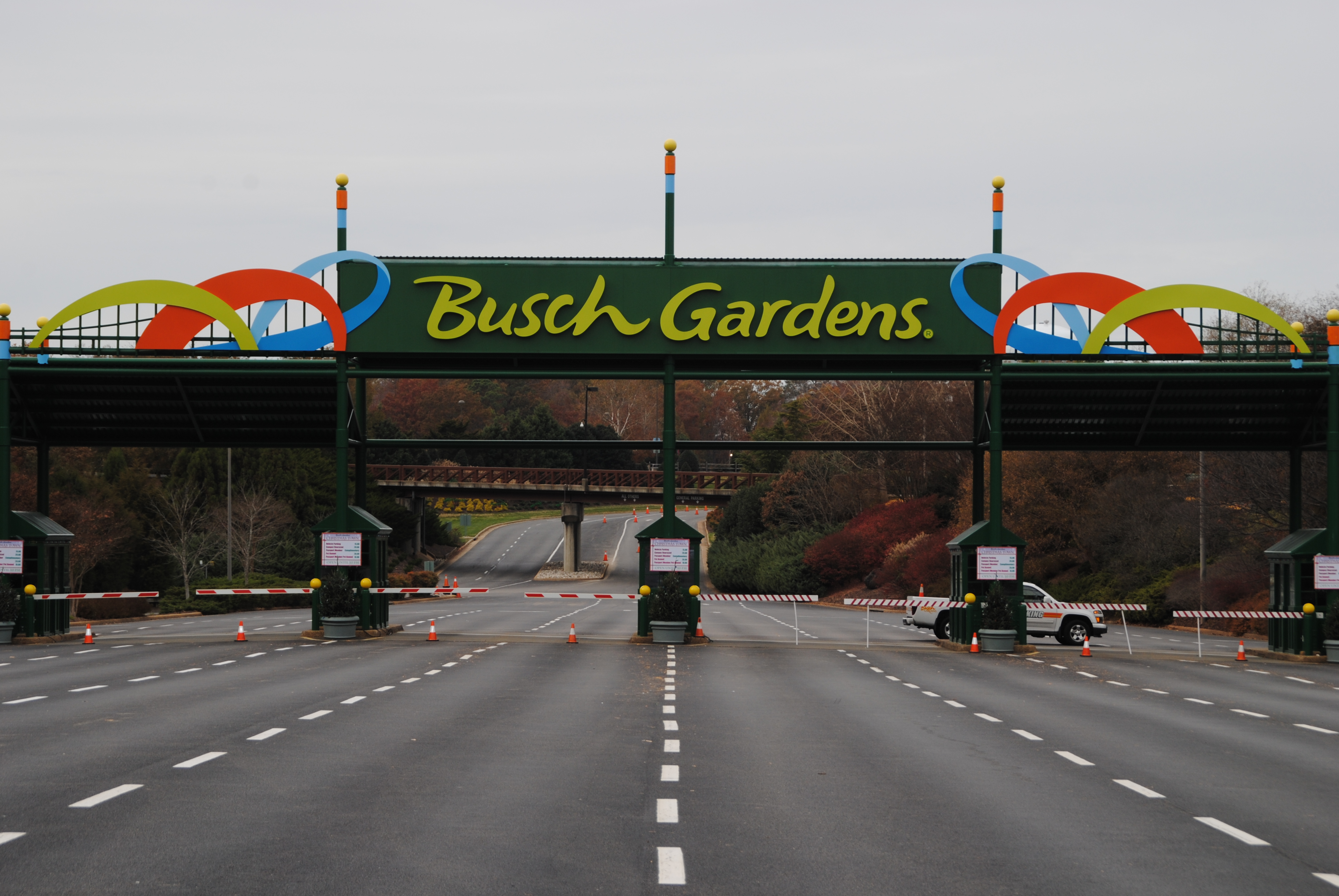 Main entrance to Busch Gardens Williamsburg